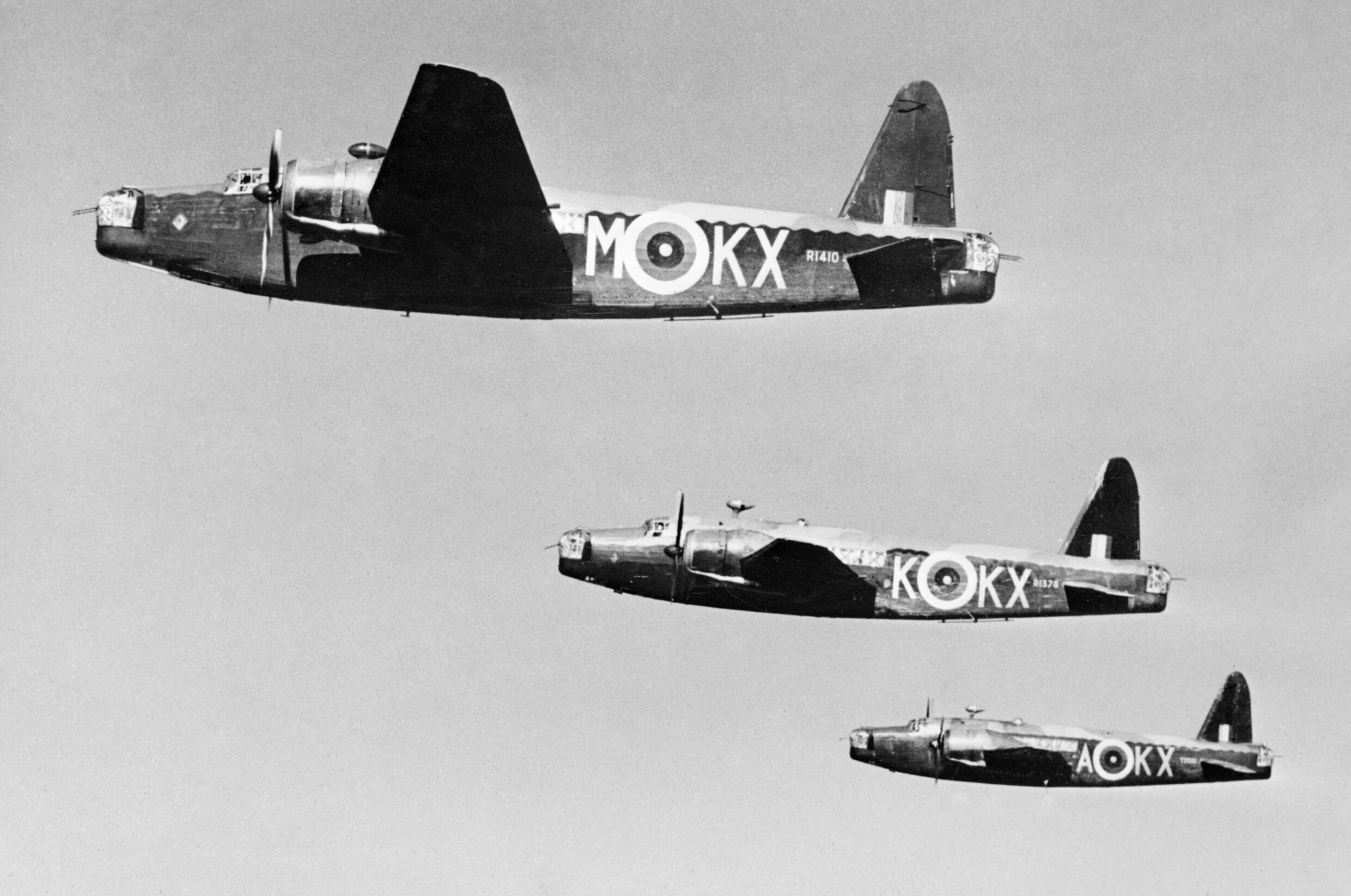 Three Wellington Mk ICs of No. 311 (Czechoslovak) Squadron RAF based at East Wretham, Norfolk, March 1941. Three Wellington Mark ICs, R1410 ‘KX-M’, R1378 ‘KX-K' and T2541 ‘KX-A’, of No. 311 (Czechoslovak) Squadron RAF based at East Wretham, Norfolk, flying in stepped starboard echelon formation.